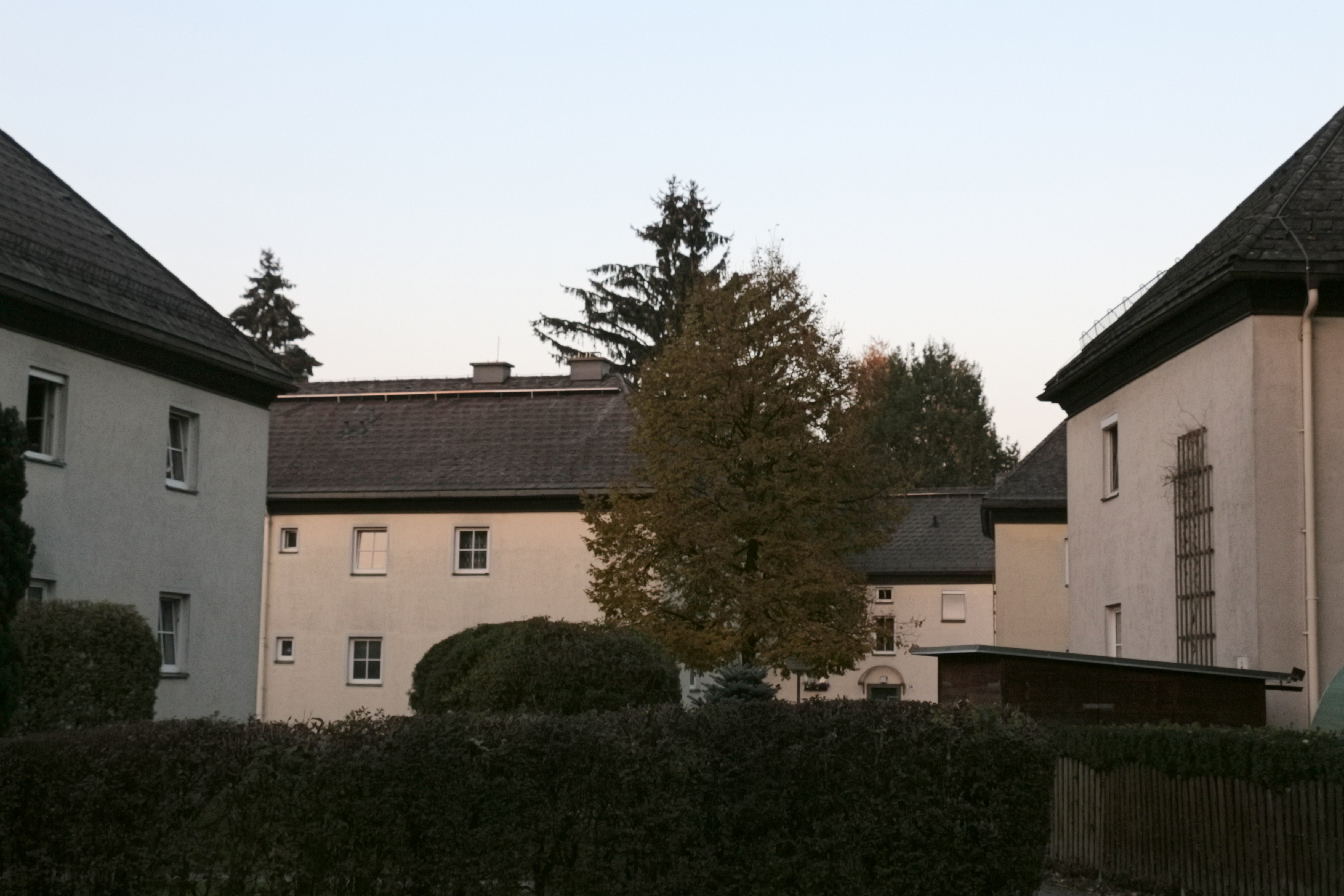 Part of the so-called South Tyrolians' Residential Complex, an estate in Liefering, a quarter of the Austrian city of Salzburg